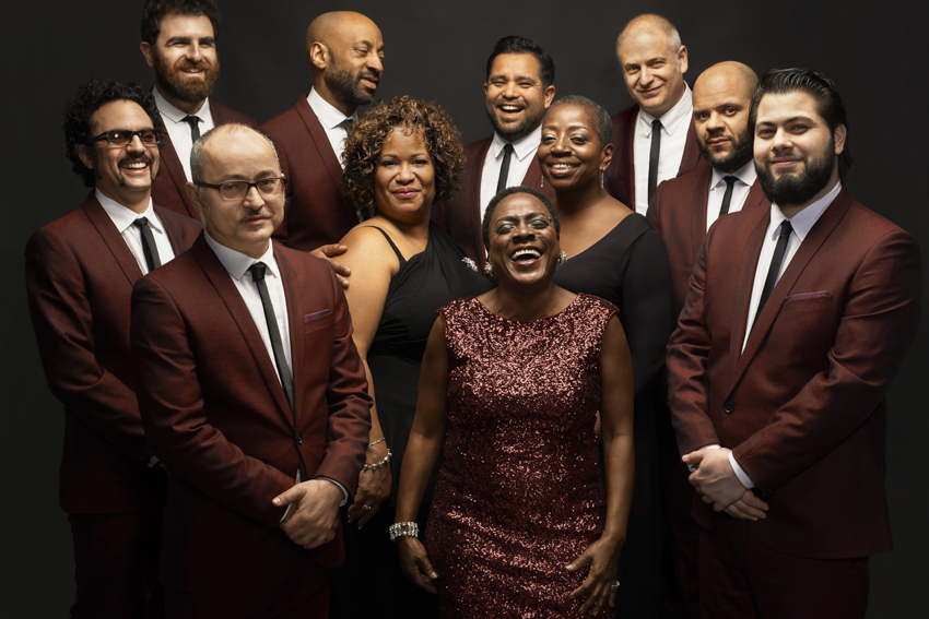 Sharon Jones and the Dap Kings - Group Shot by Jacob Blickenstaff NEW YORK, NY - February 10, 2015 - "Huang Yi & Kuka" presented at 3-Legged Dog. Choreographer Huang Yi and robot 'Kuka' in rehearsal.